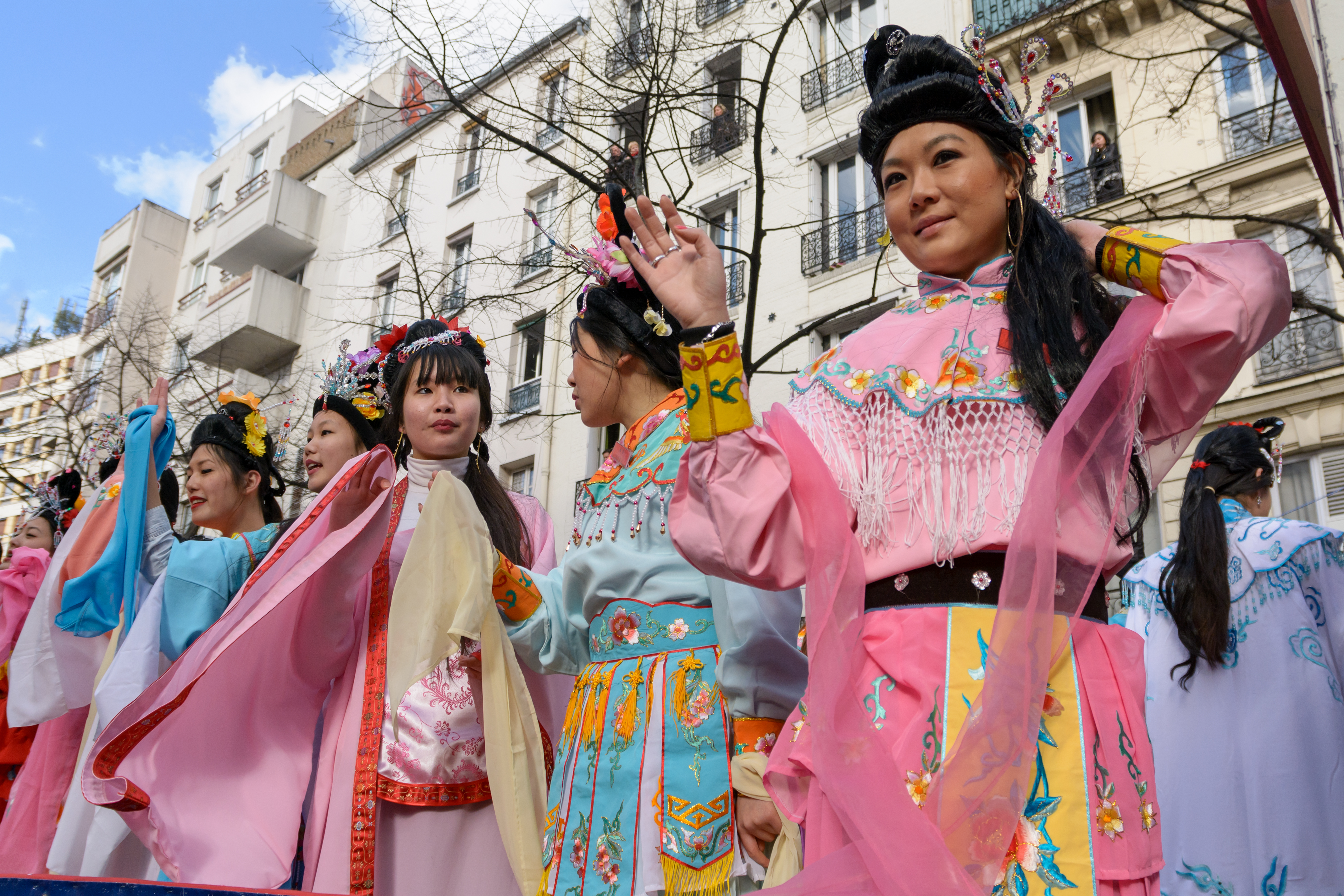 Chinese New Year 2015 in the 13th arrondissement of Paris